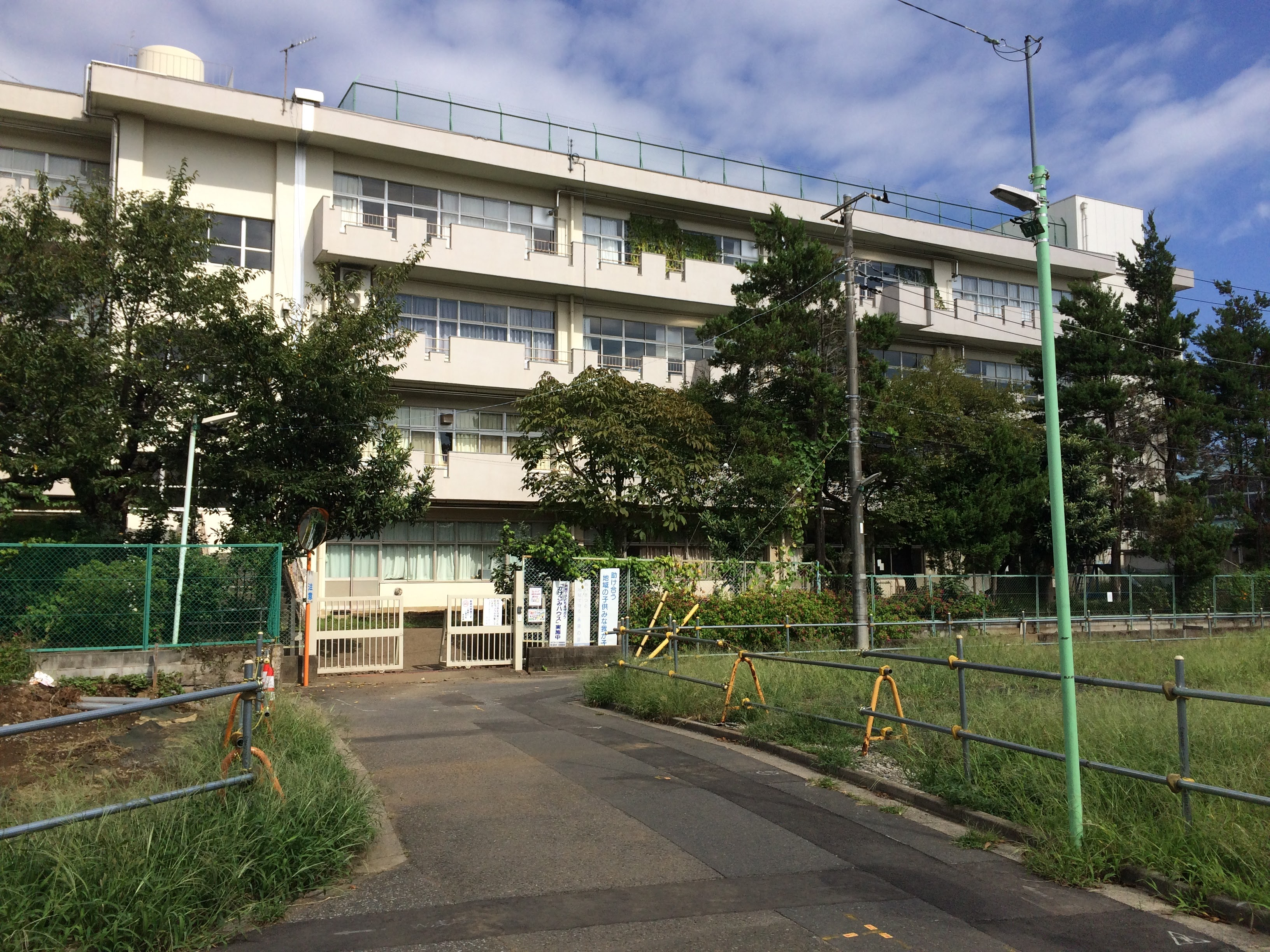 An elementary school in Higashi-kurume City